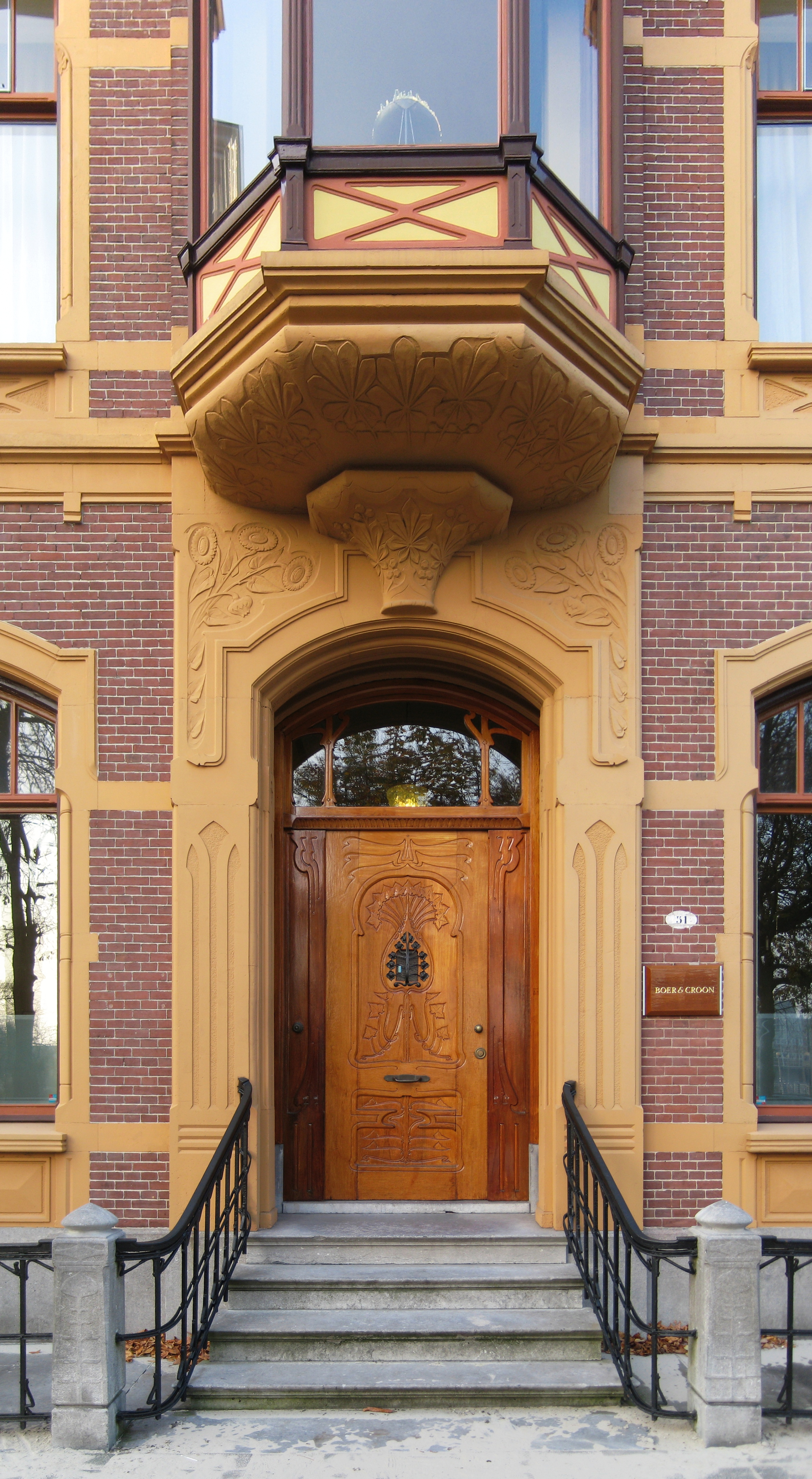 Entrance in Art Nouveau style (1902) of a house (1882) in the Dutch city of Groningen.